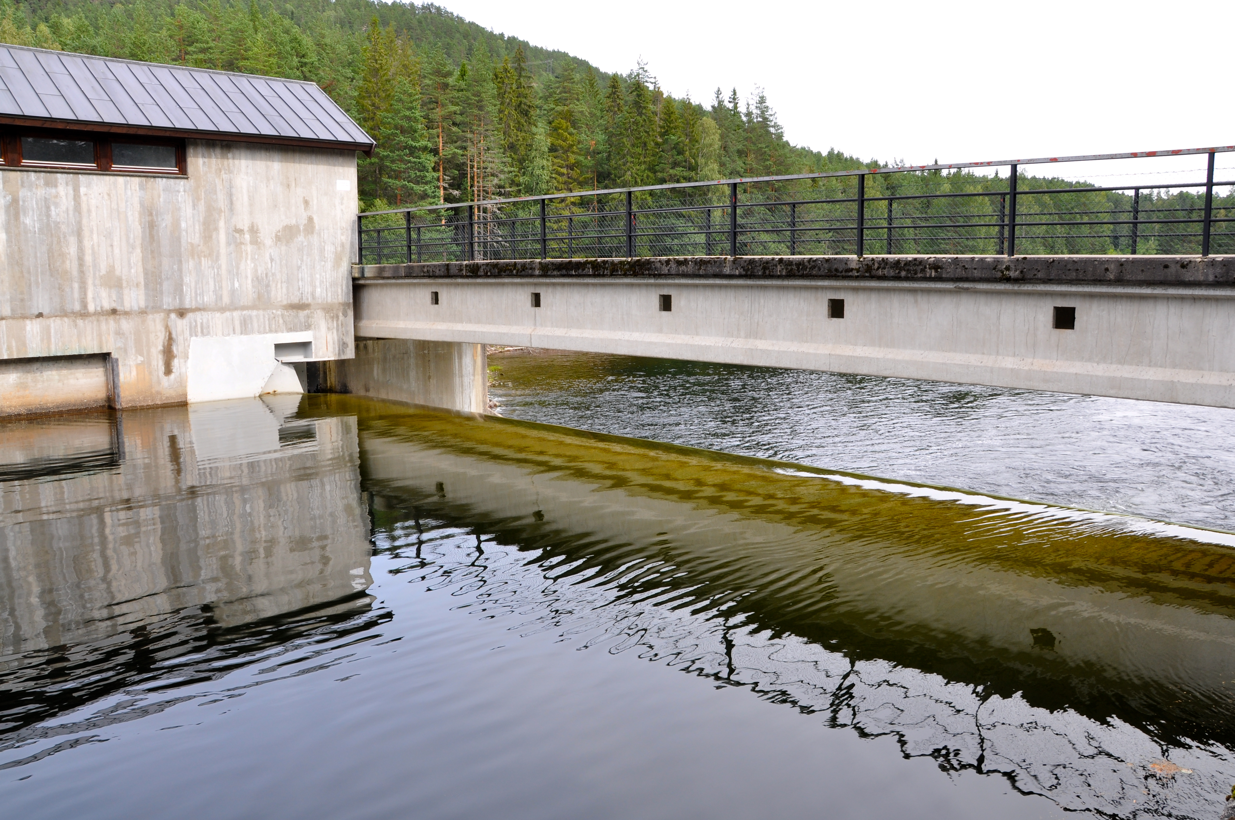 Hogga dam, Lunde, Telemark